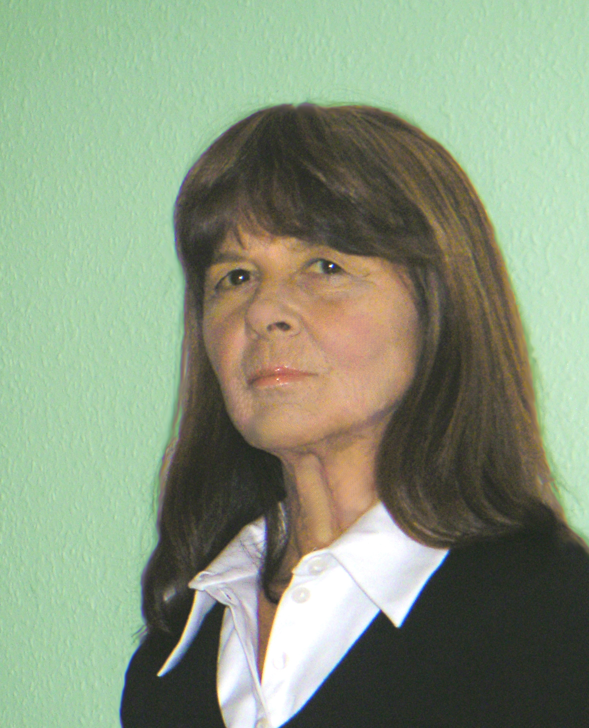 Catharina Kjellberg